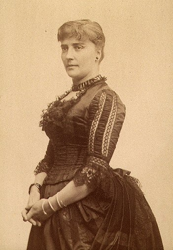 Portrait from 1885 of Amalie Skram, Norwegian/Danish author.